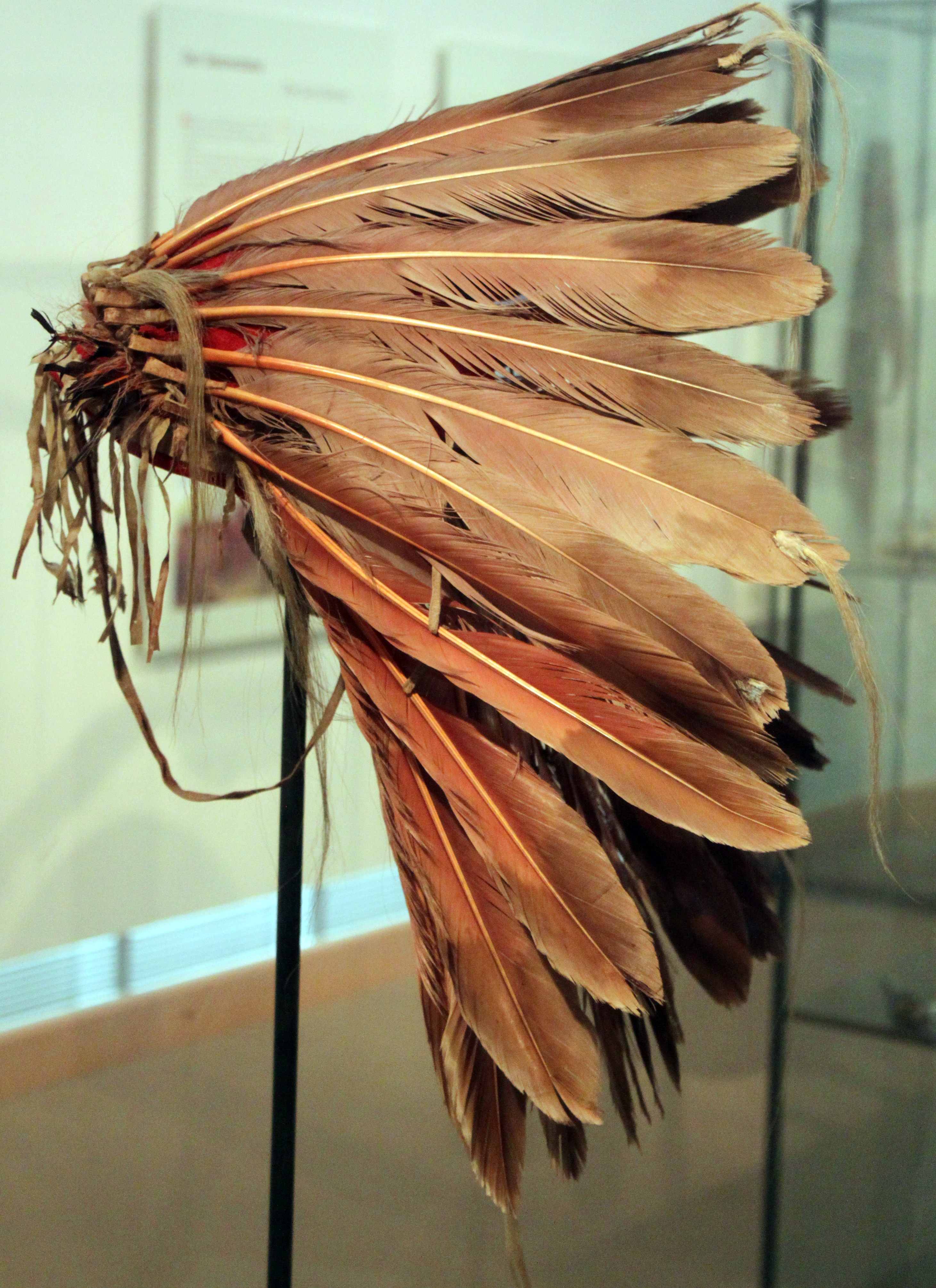 Feather headdress from "Wolf Chief" of the Hidatsa, 1830.